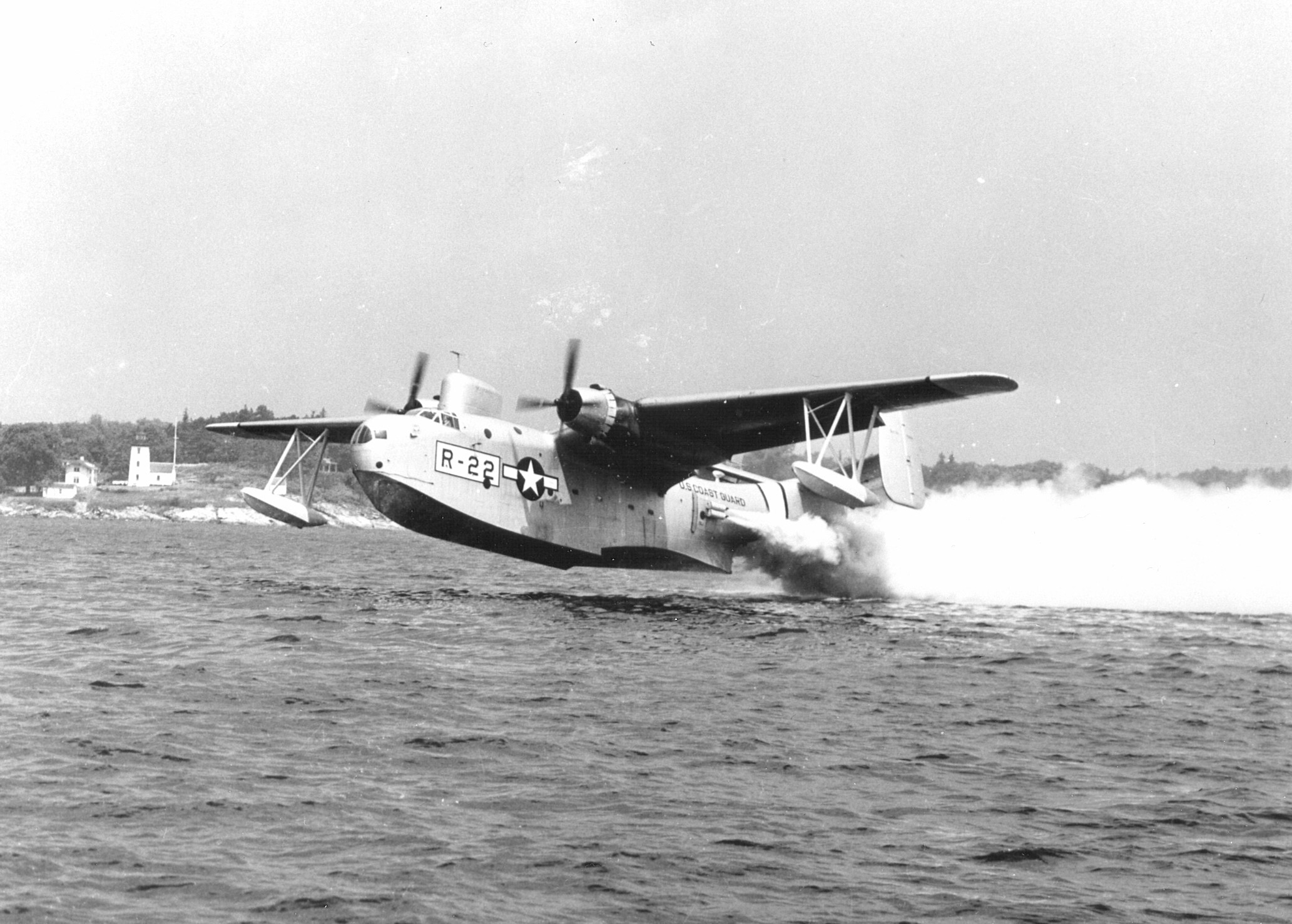 A U.S. Coast Guard Martin PBM-3G or PBM-5G Mariner taking off from the water (late 1940s?).